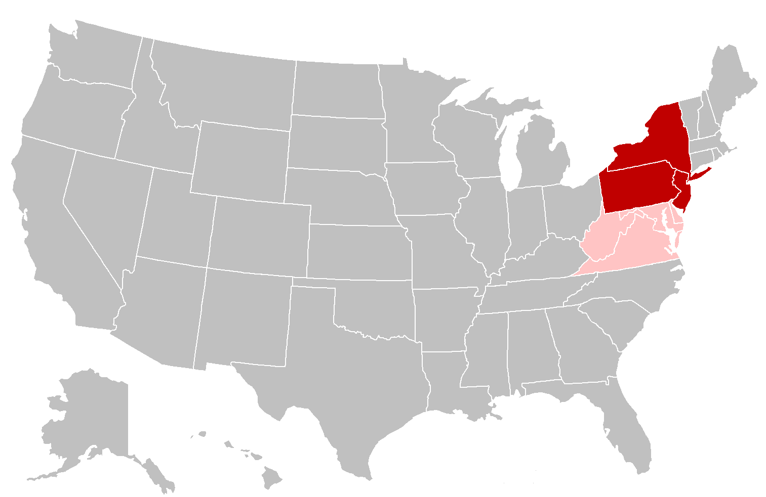 Map of the Mid-Atlantic United States. Red shading indicates the states most commonly defined as the Mid-Atlantic in their entirety (i.e. the southern portion of the Northeast) by public sector agencies and private organizations. Pink shading indicates states that are grouped in the region less frequently.